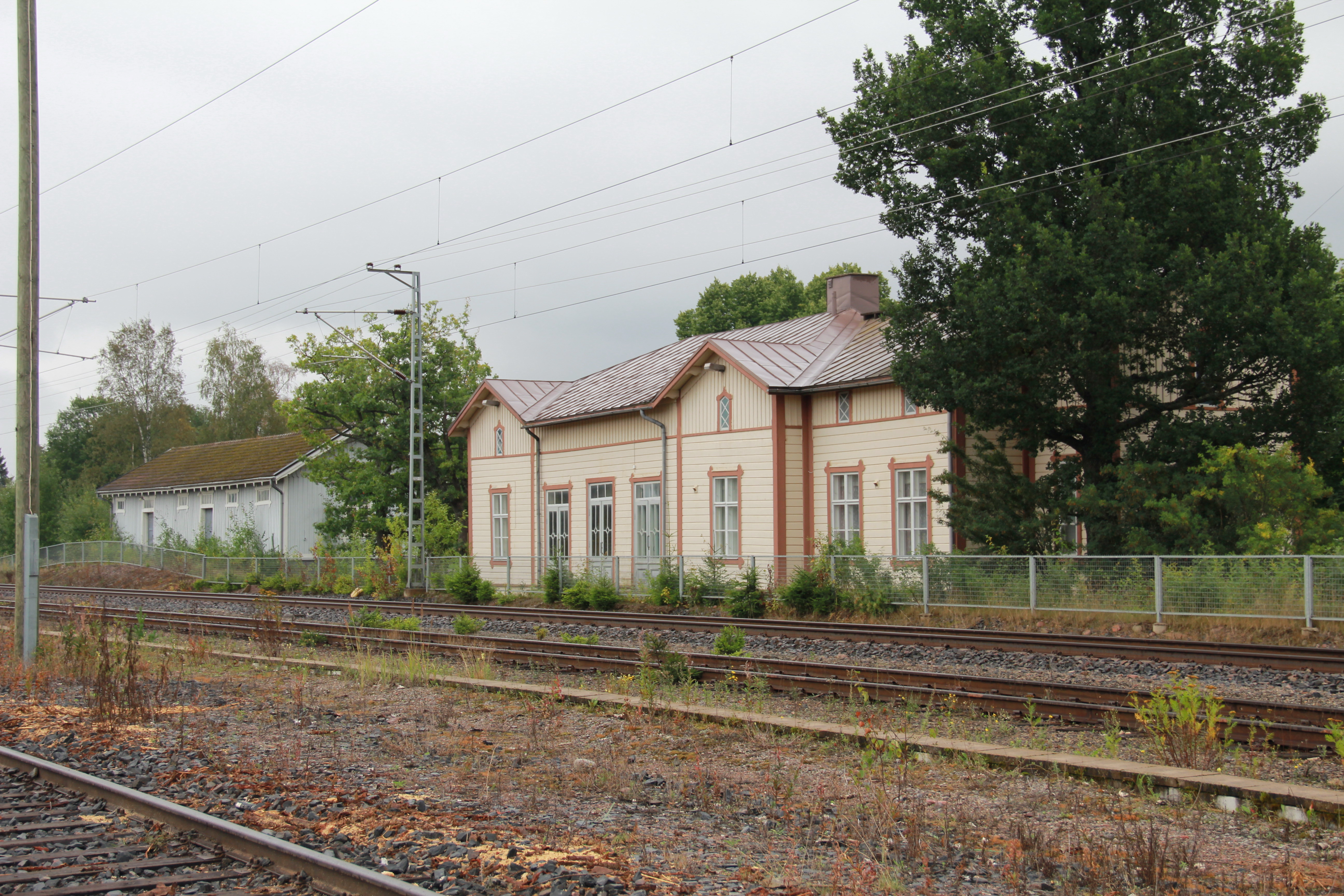 Kyrö railway station in Kyrö, Karinainen, Pöytyä, Finland. Built in 1870's, not in it's original use anymore. Left: station warehouse.